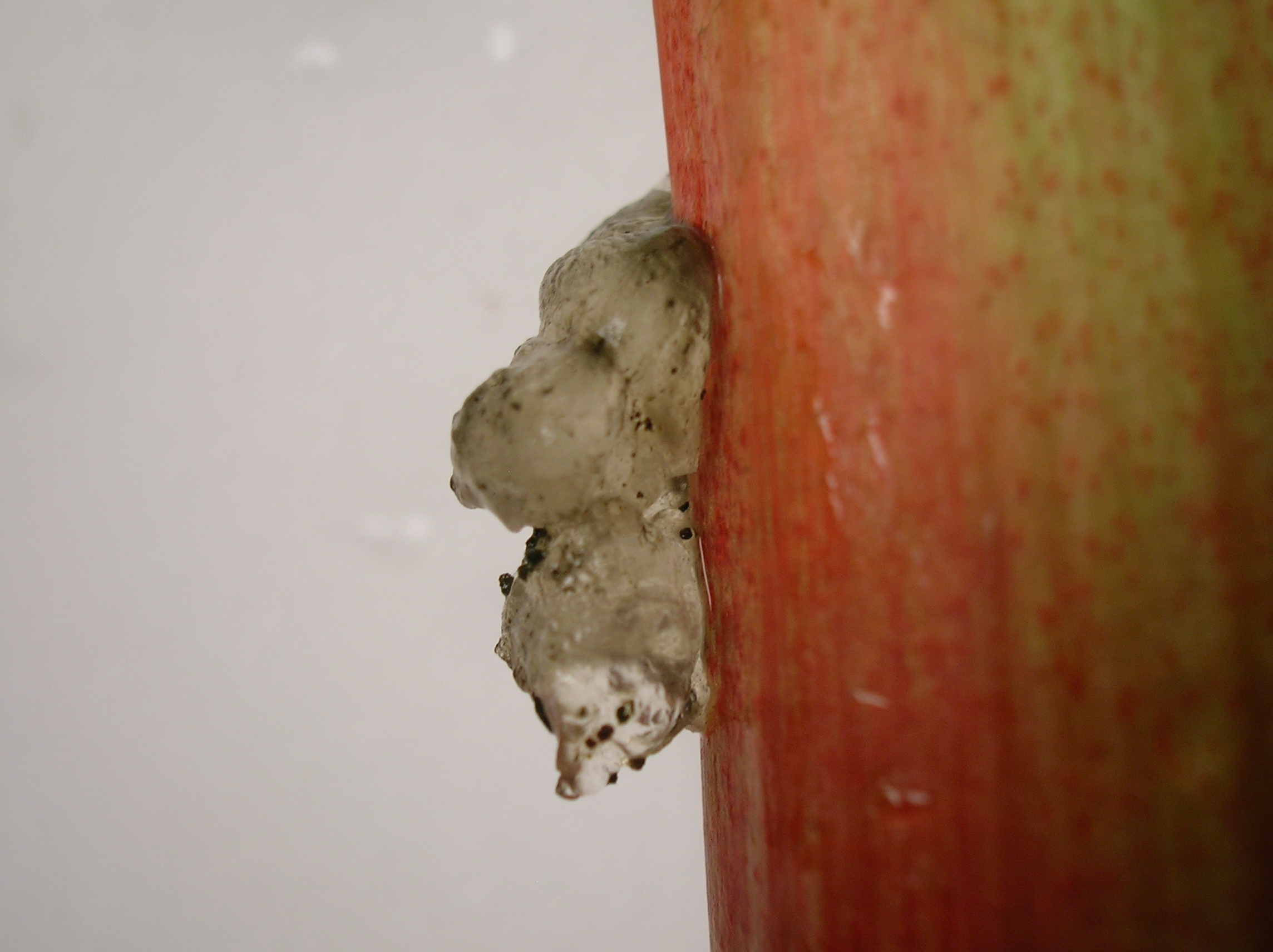 Sap gummosis on Rhubarb (Rheum), caused by the Weevil Lixus concavus.